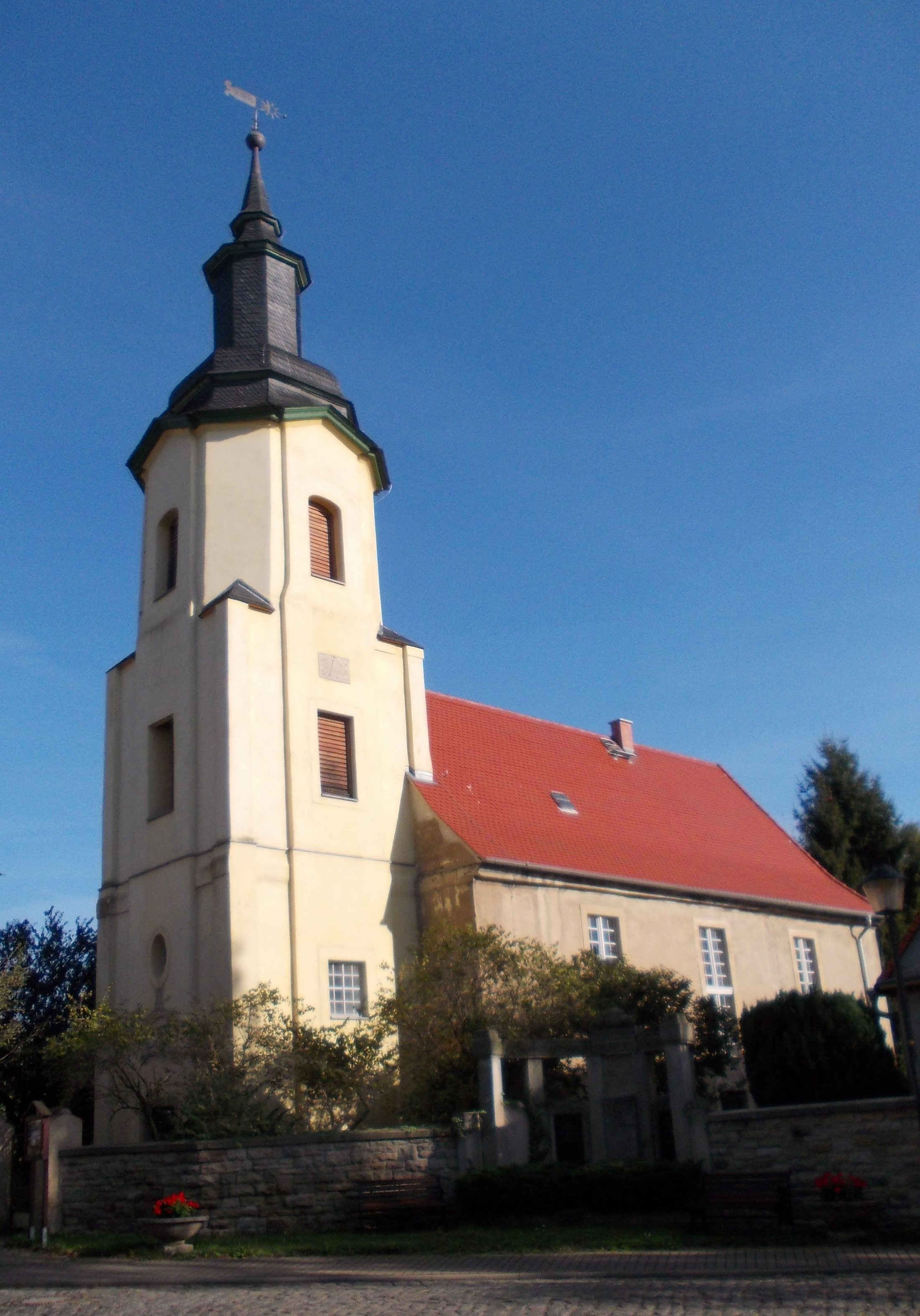 Draschwitz church (Elsteraue, district: Burgenlandkreis, Saxony-Anhalt)